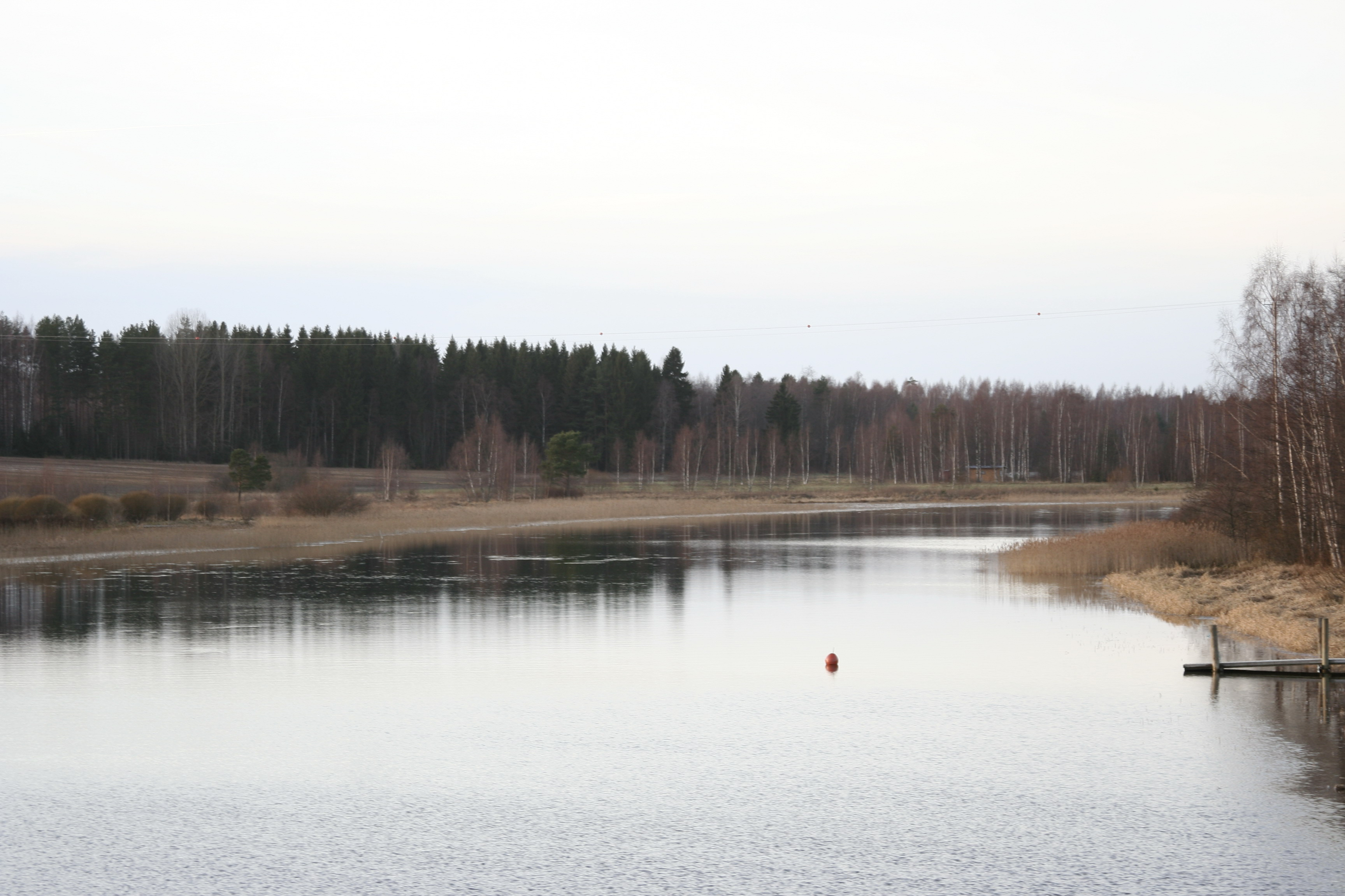 Alvettula river seen from the museum bridge, Alvettula, Hauho, Hämeenlinna, Finland.